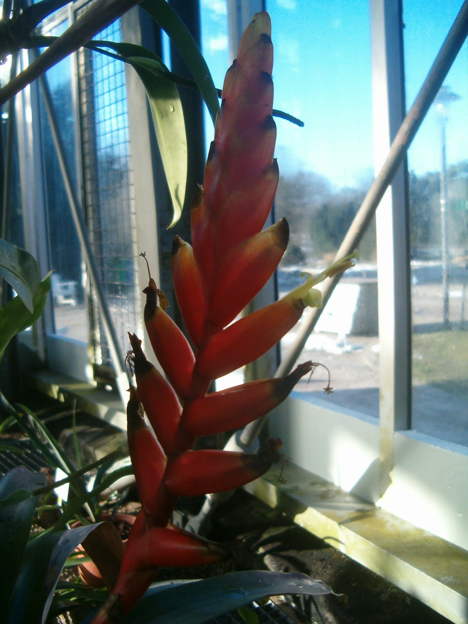 At Botanical Gardens Berlin-Dahlem Species Vriesea ensiformis